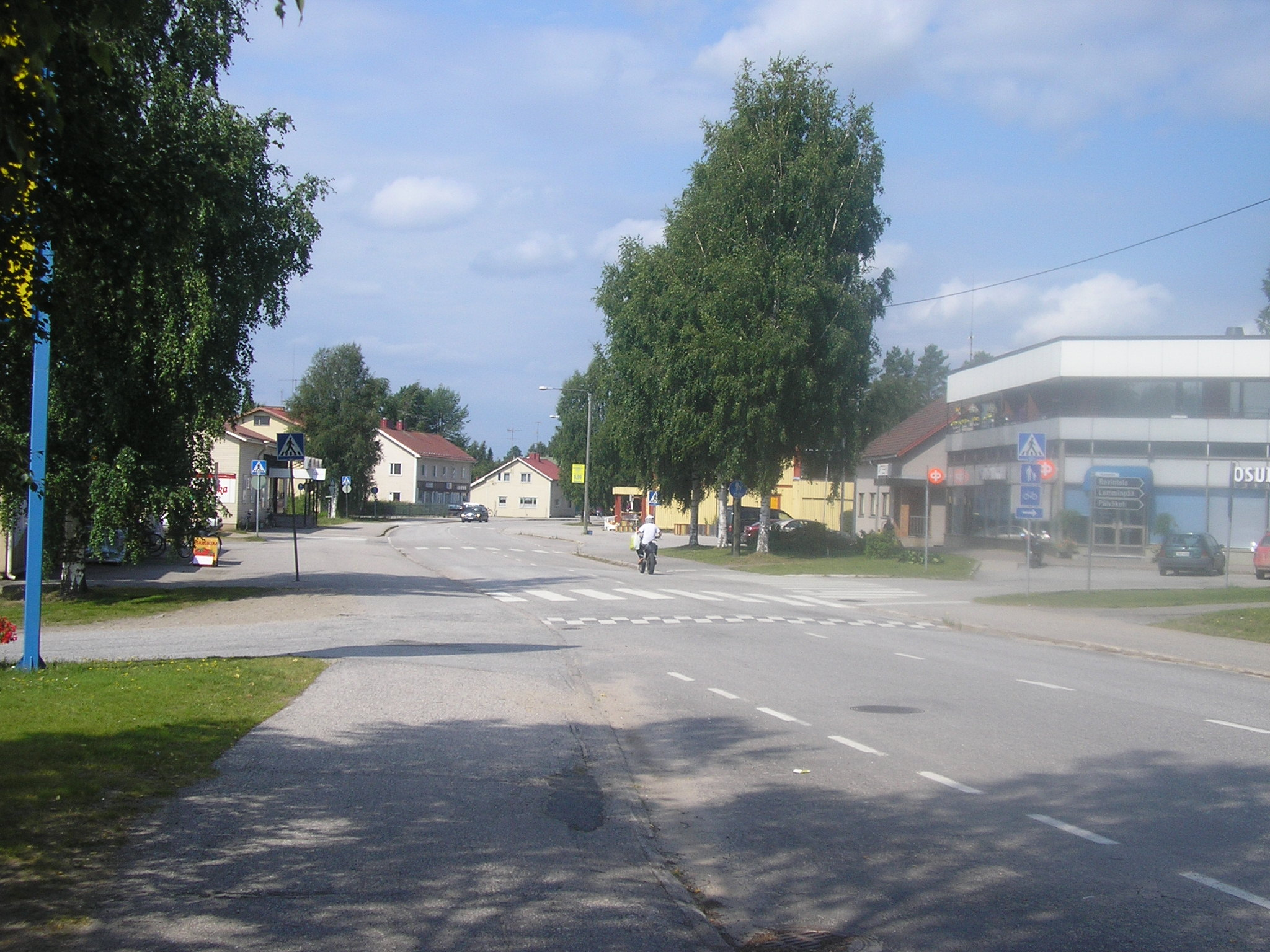 Valtimo center, Finland